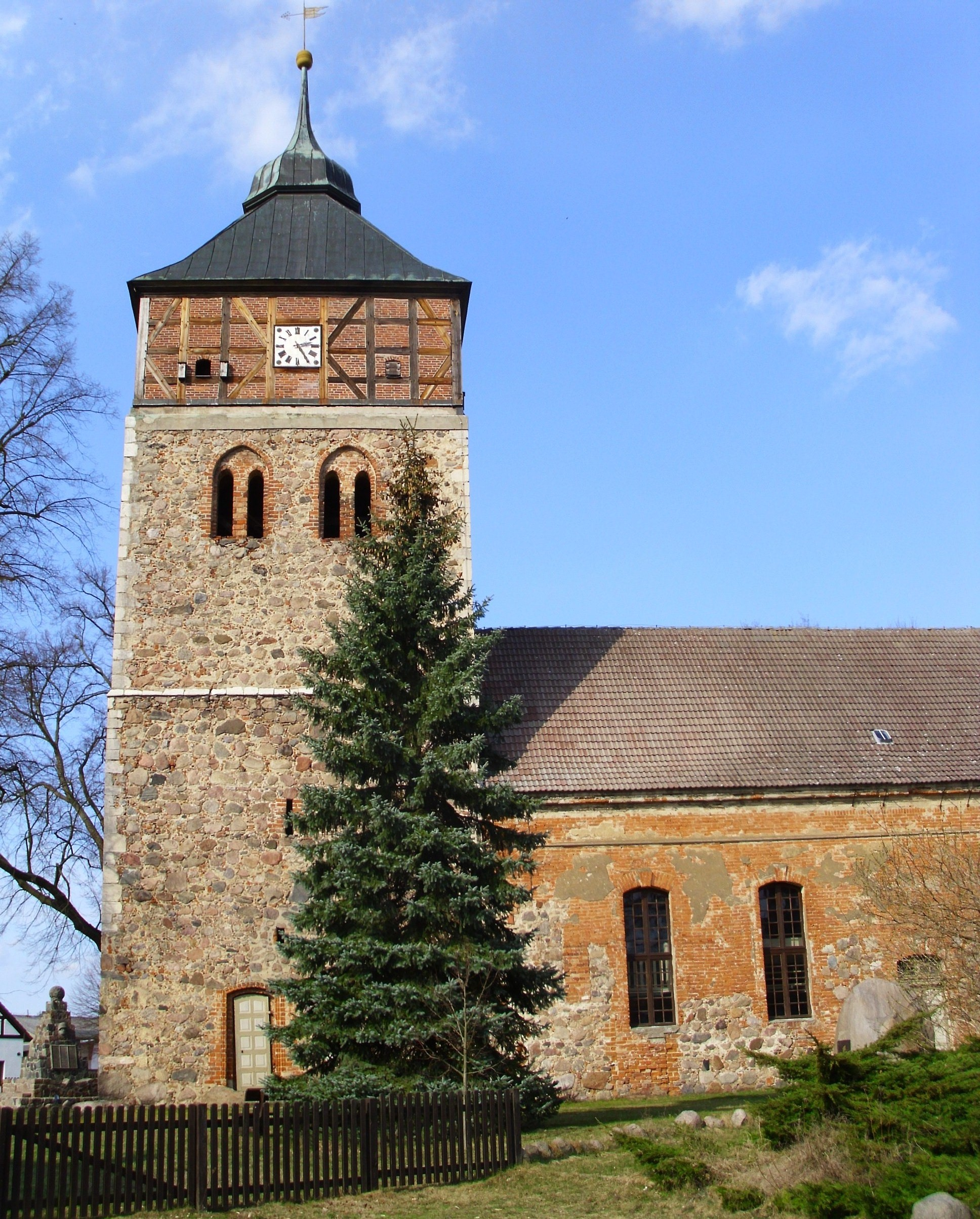 Church of the village Groß Schönebeck